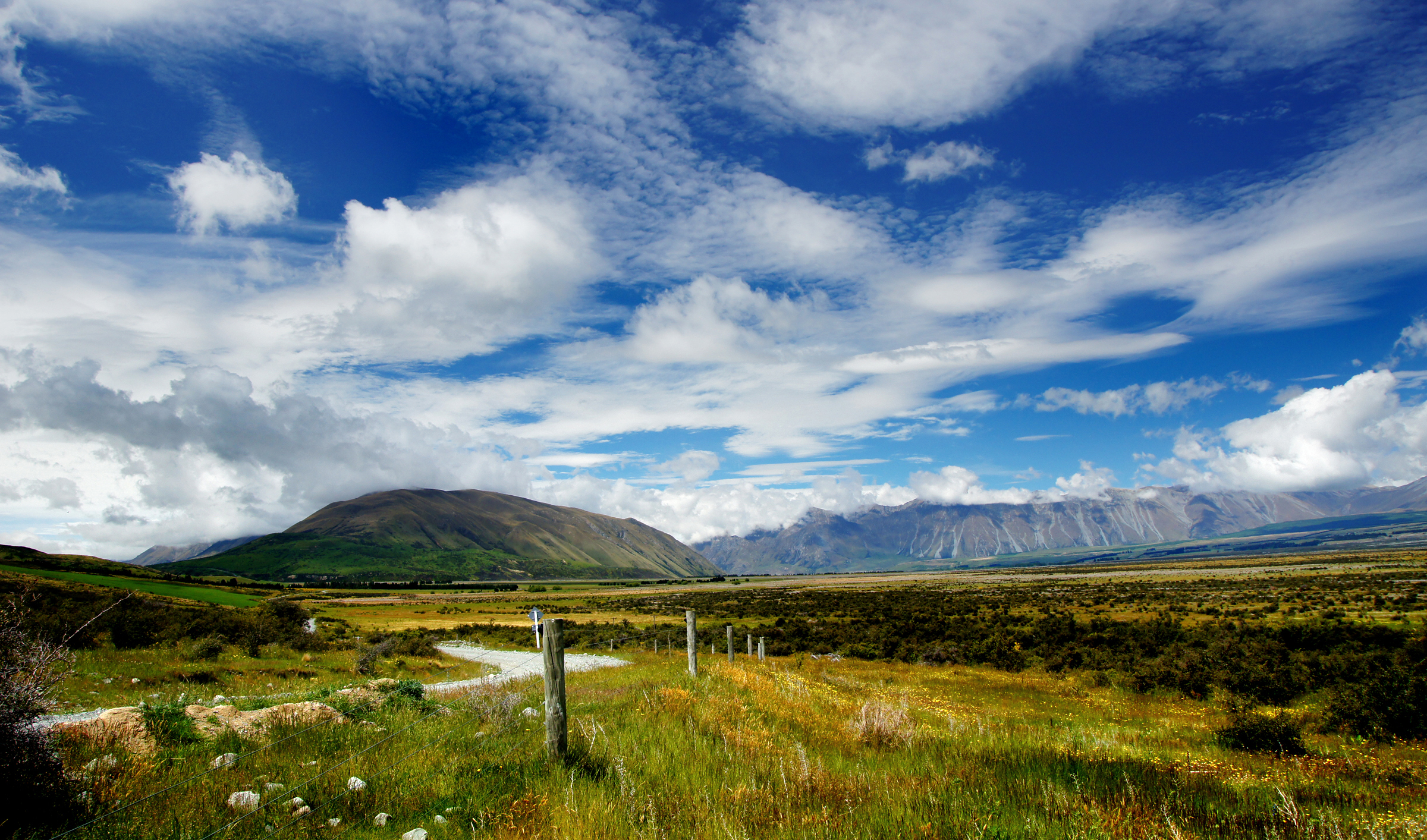 Back country scenery in the same area as some of the "The Lord of the Rings"was shot. Canterbury NZ.